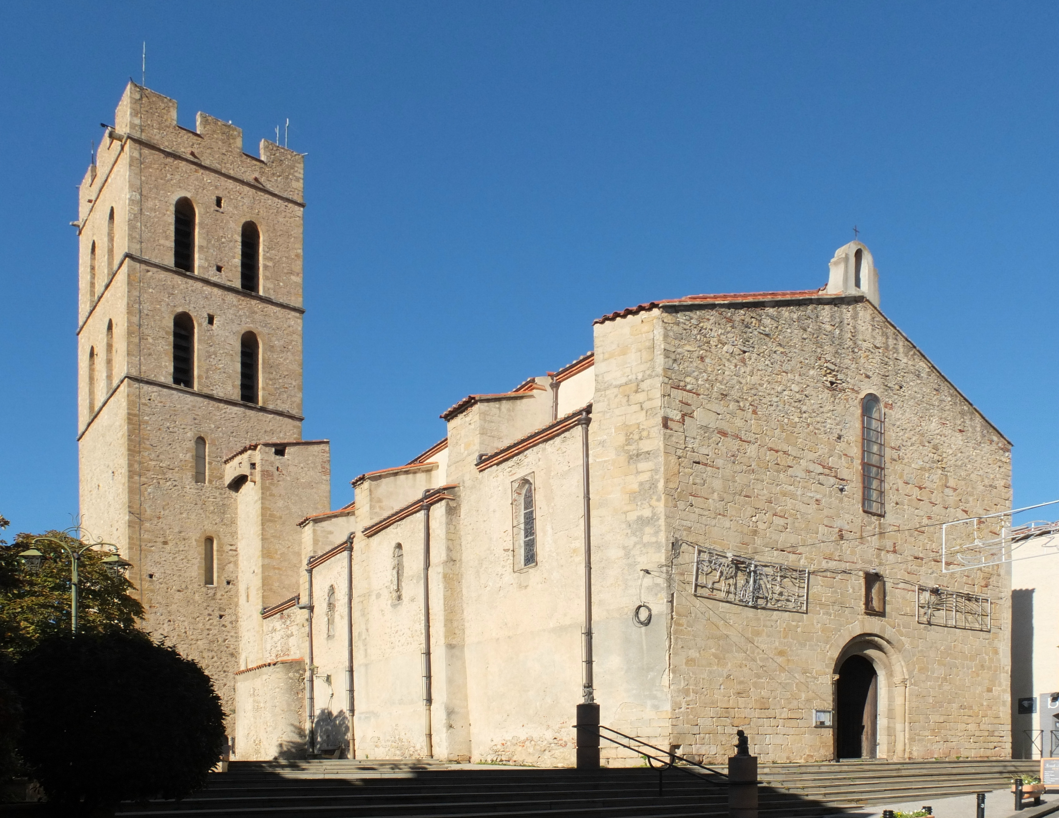 Parish church Notre-Dame del Prat, Argelès-sur-Mer, France (view E)